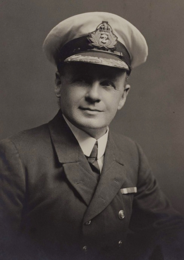 Charles H. Lightoller, second officer of the RMS Titanic